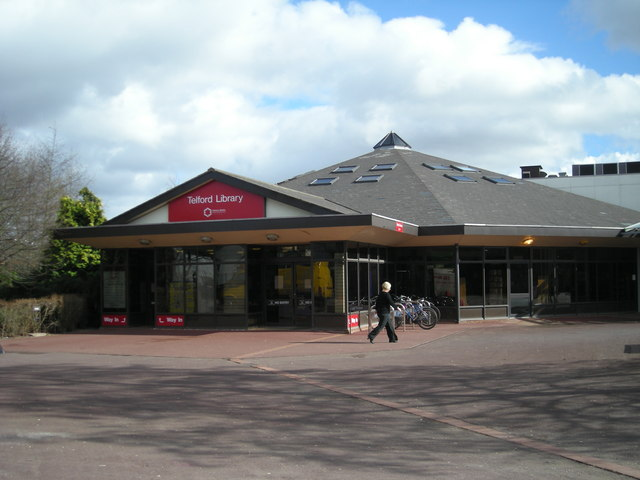 Telford Town Centre Library